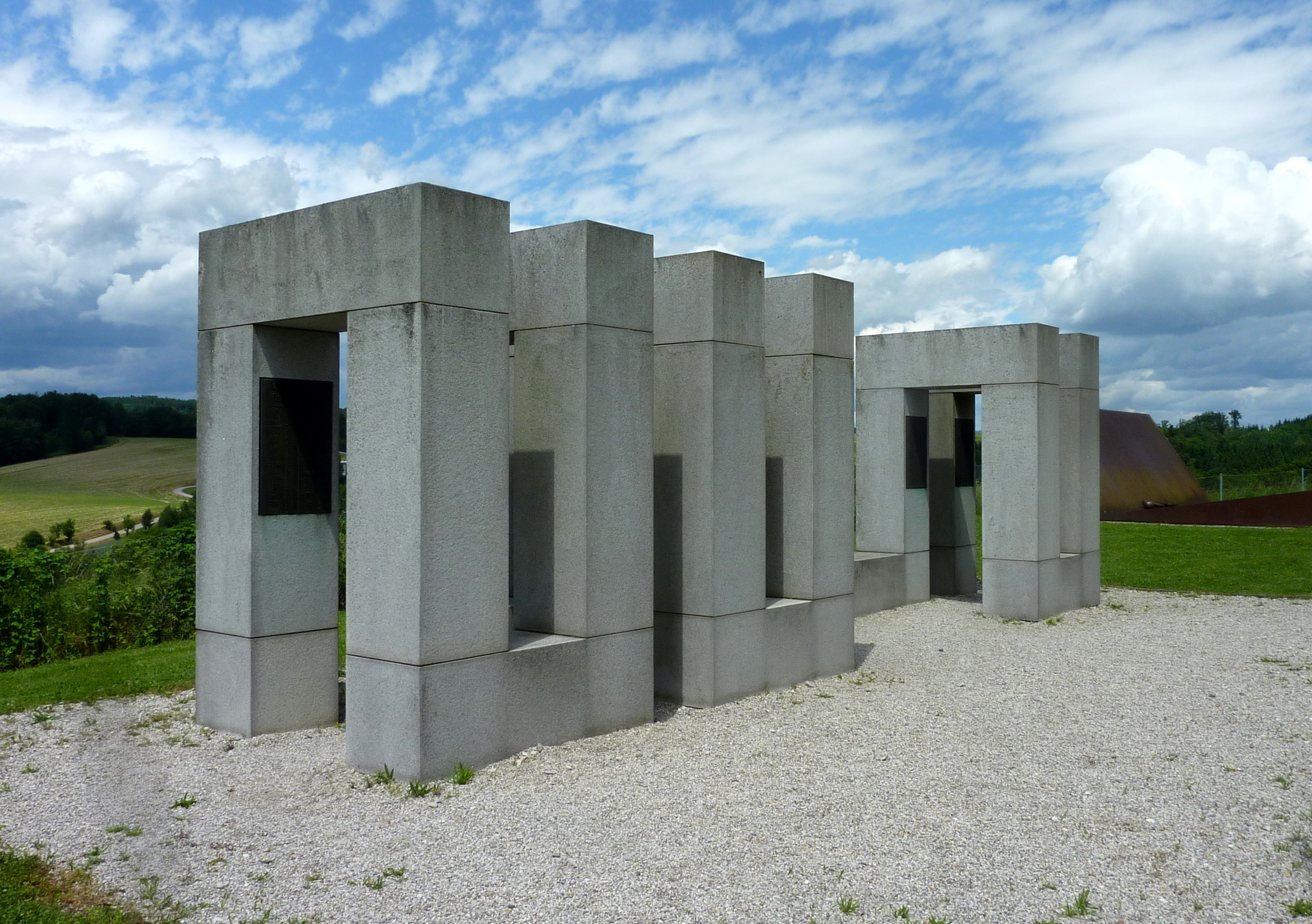 Dutch Memorial in the Mauthausen Concentration Camp (Appie Drielsma 1986)